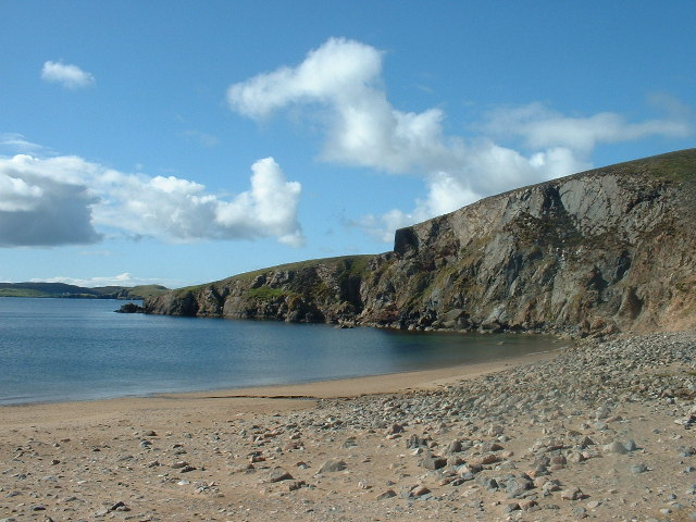 Muckle Ayre Beach, Muckle Roe, Shetland A wonderful deserted 'end of the road' beach, which had an otter running along it when I came to it.